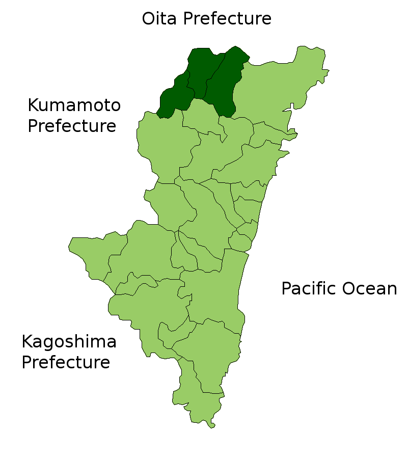 Location Map of Nishiusuki District in Miyazaki Prefecture, Japan